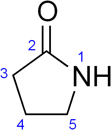 Chemical structure of 2-pyrrolidone created with ChemDraw.